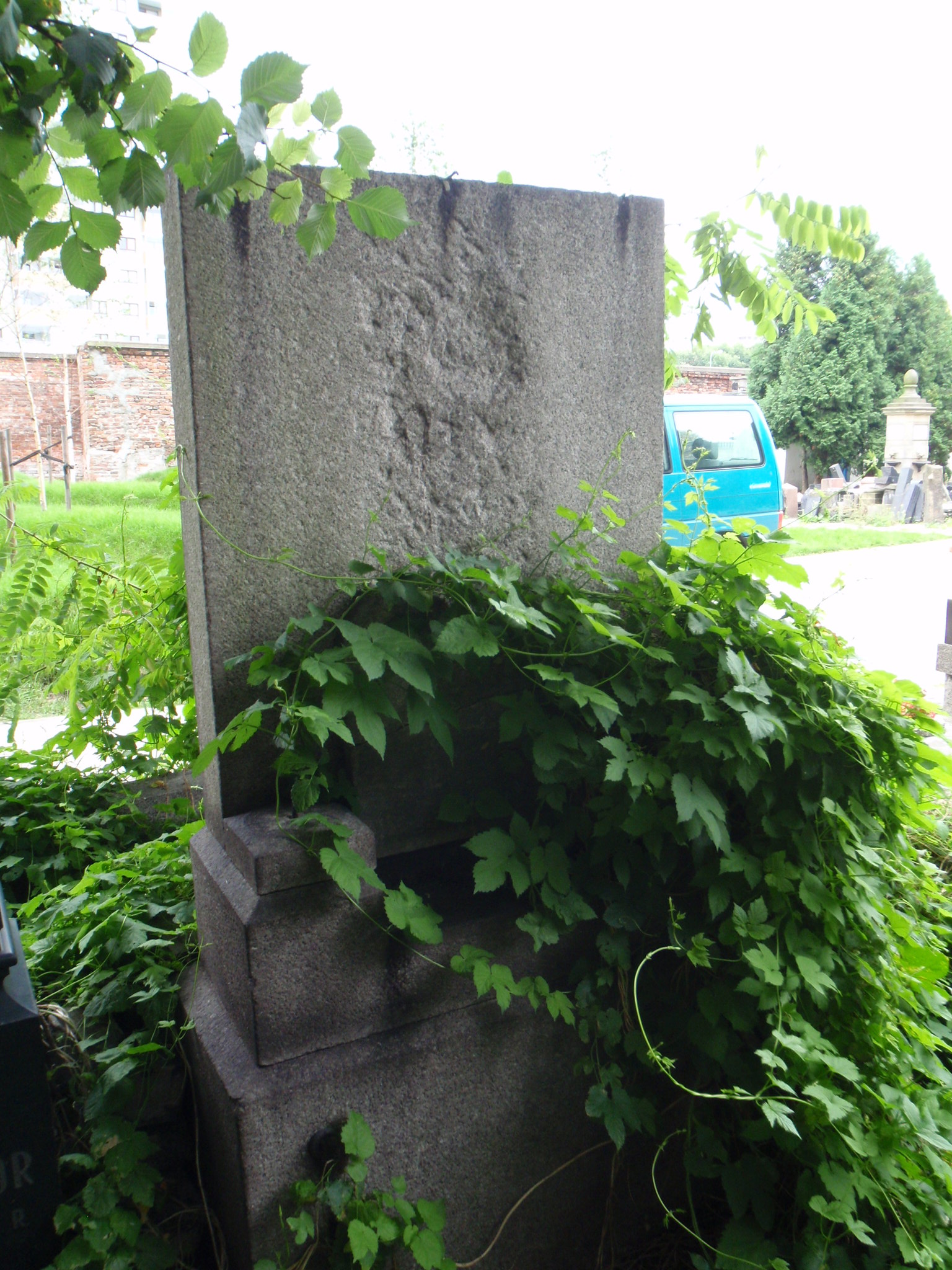 Grave of Józef Seidenbeutel